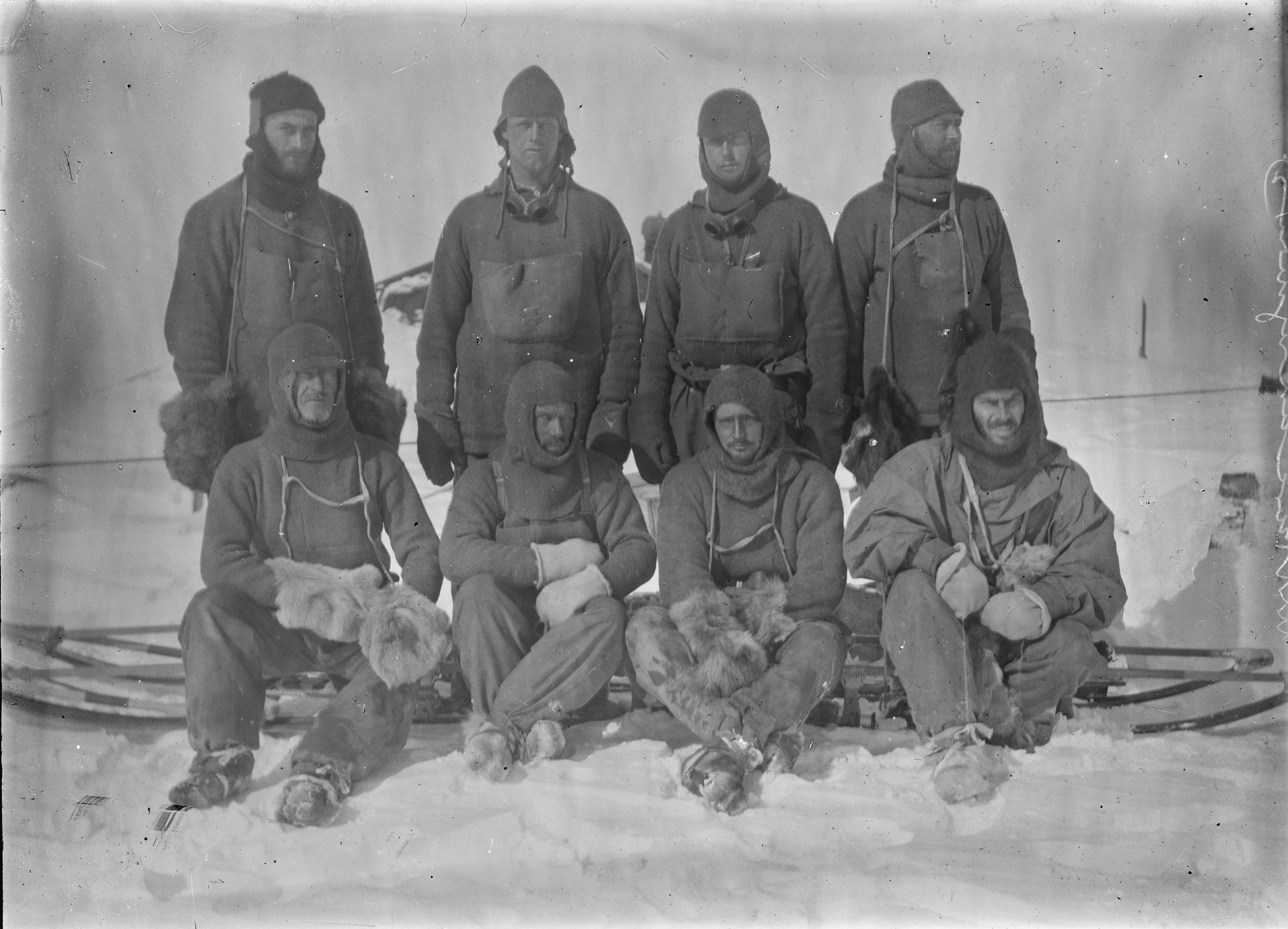 Photograph of the Western Base Party of the Australasian Antarctic Expedition, 1911-1914.